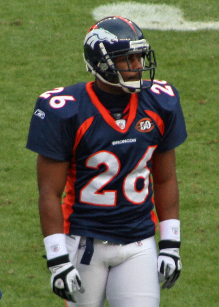 Ty Law, a player on the Denver Broncos American football team.